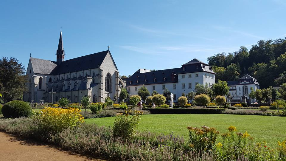 Basilika "Unsere Liebe Frau von Marienstatt" (Abtei Marienstatt)